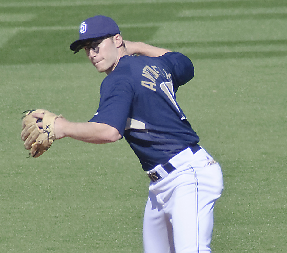 Matt Antonelli in 2010 spring training.